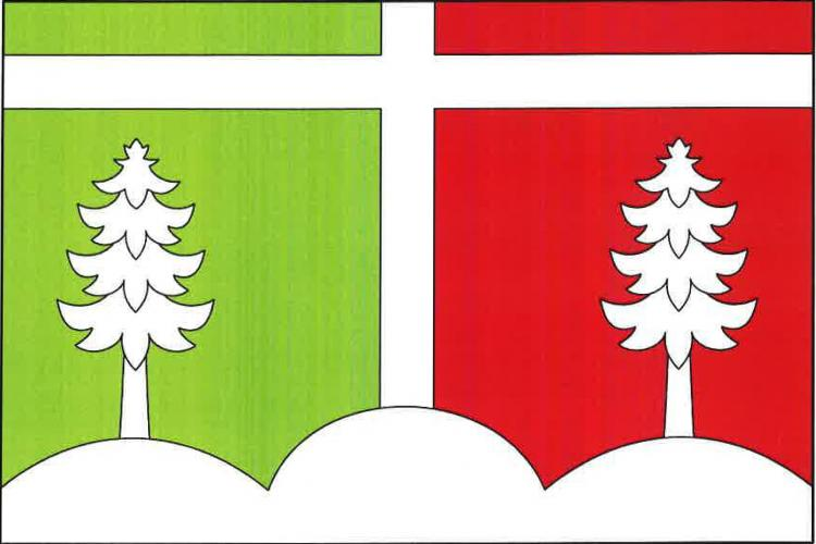 vlajka obce Žlebské Chvalovice